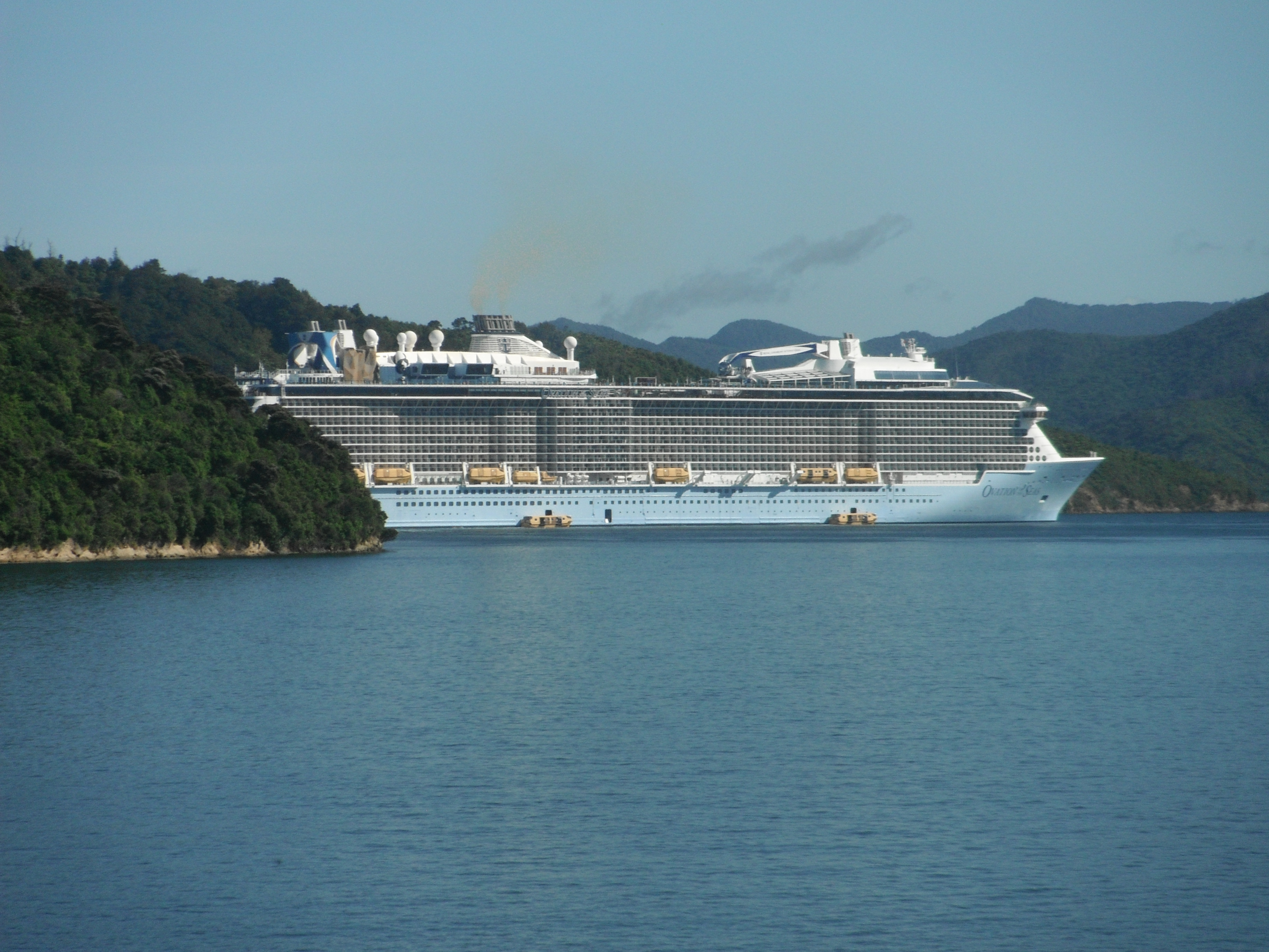 Royal Caribbean cruise ship Ovation of the Seas anchored off Picton, New Zealand, on Friday 13 December 2019. Four days prior to this photo, 38 passengers on a shore excursion from the ship were involved in the w:2019 Whakaari/White Island eruption, resulting in the ship being delayed and being diverted to Picton instead of Dunedin and Fiordland. Usually, the ship would berth at Waimahara Wharf, but due to the short notice, it was unavailable. Instead, the ship anchored near Mabel Island and passengers were tendered into the town.